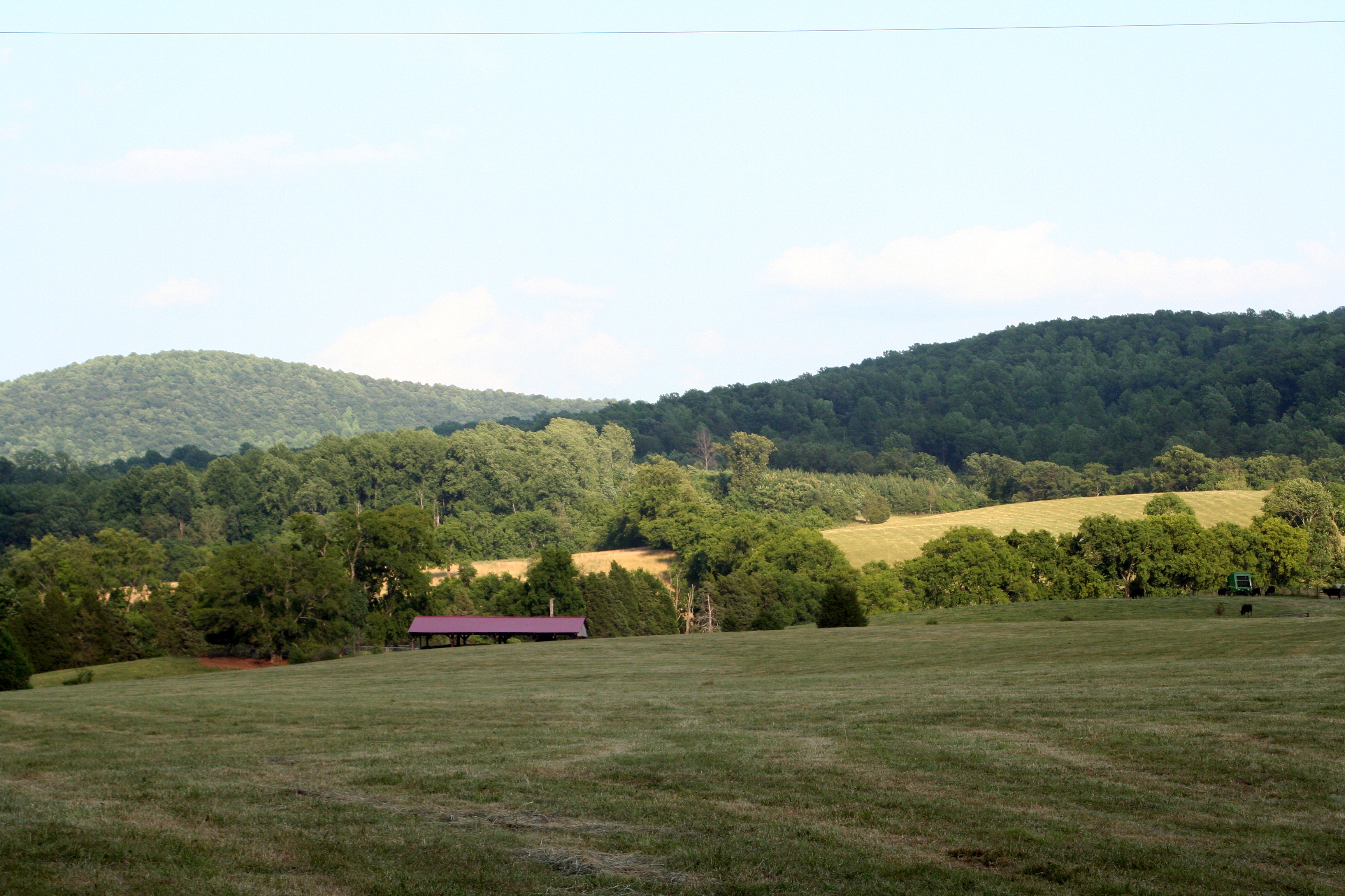 The Southwest Mountains, photographed from Stony Point in northeast Albemarle County.